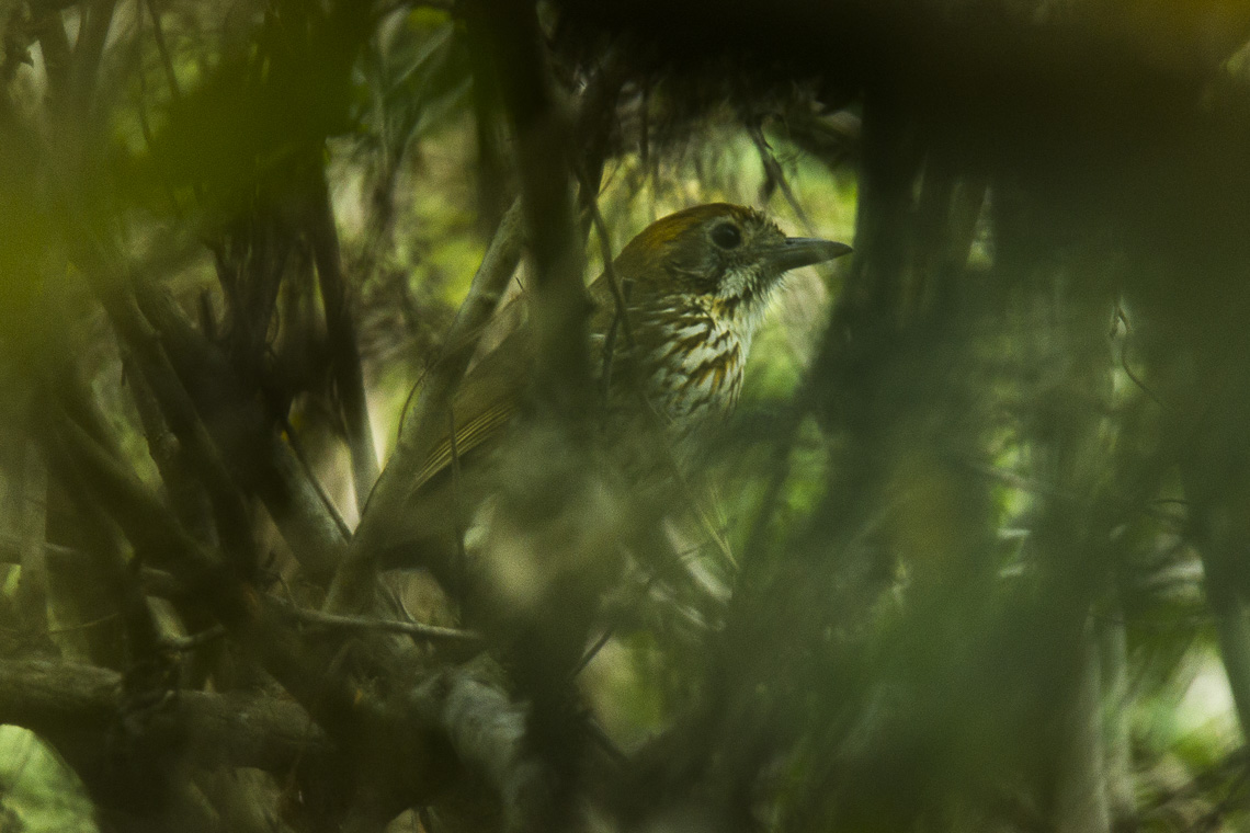 Watkins' Antpitta - South Ecuador_S4E9791